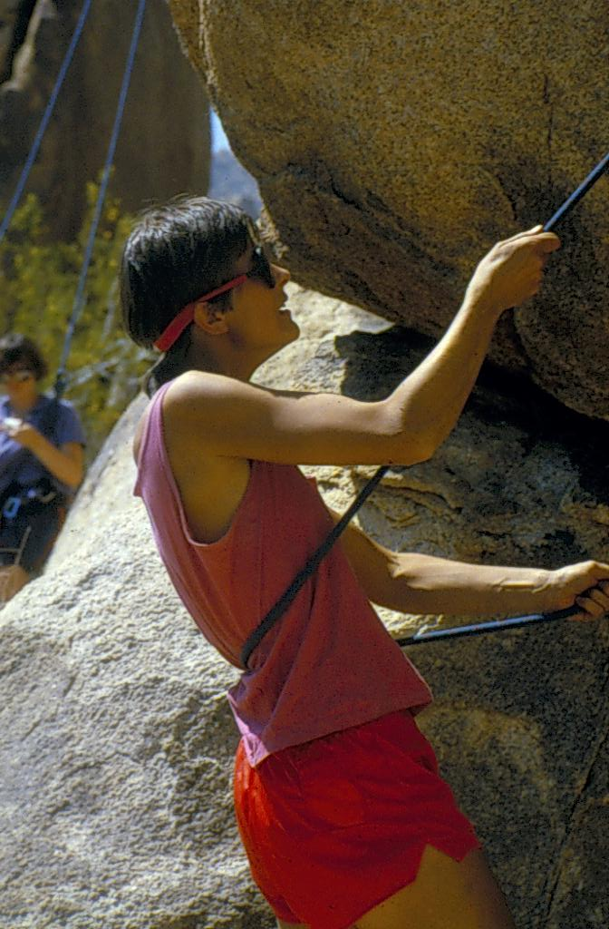 Denise Mitten belaying at Joshua Tree on a Woodswomen trip